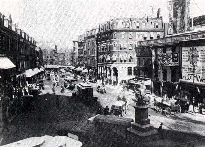 Scollay Square in the 1880s Location: Scollay Square, Boston Source: [1] Image is also in the public domain as it is owned by The Boston Historical Society and Museum, which itself is owned by the City of Boston.